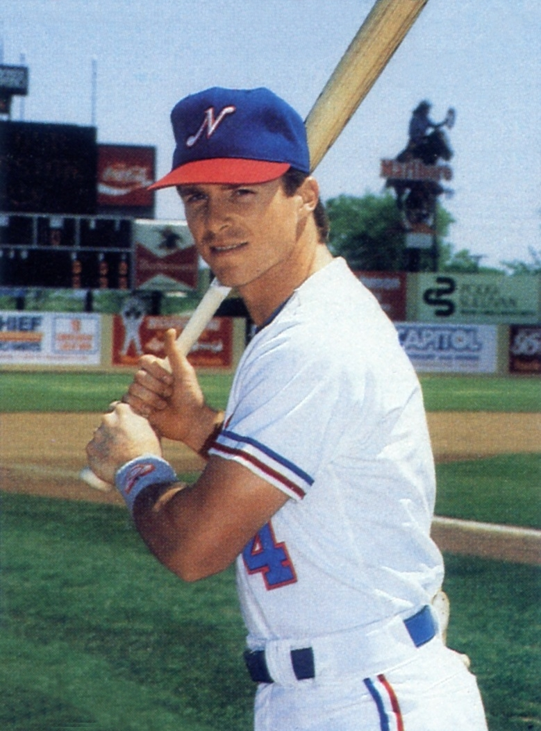 Third baseman Marty Brown of the 1988 Nashville Sounds Minor League Baseball team of the American Association